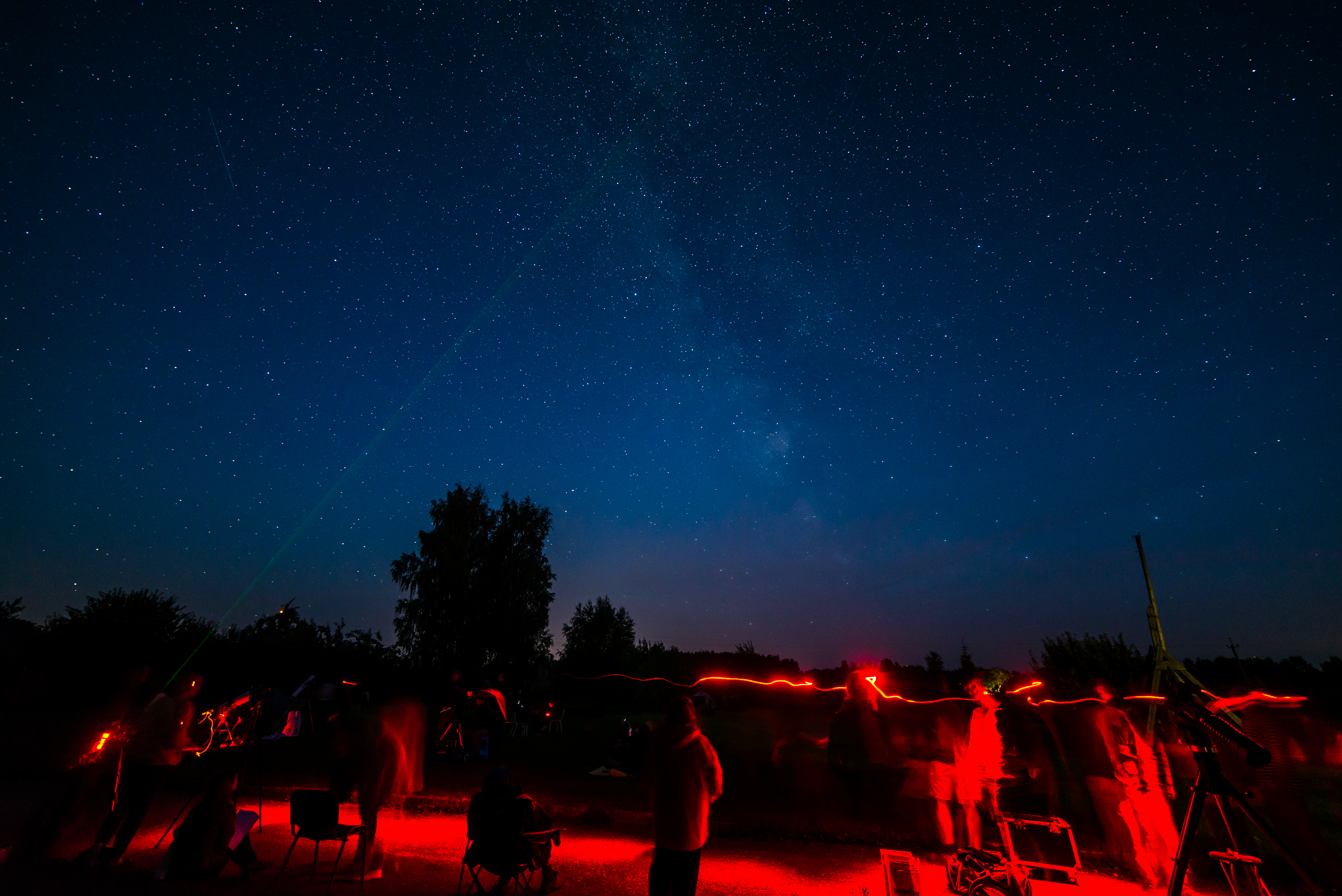 The assembly of people interested in astronomy. Annual event every August in Estonia. Astronomers counting the Perseids, introducing telescopes and the night sky objects.